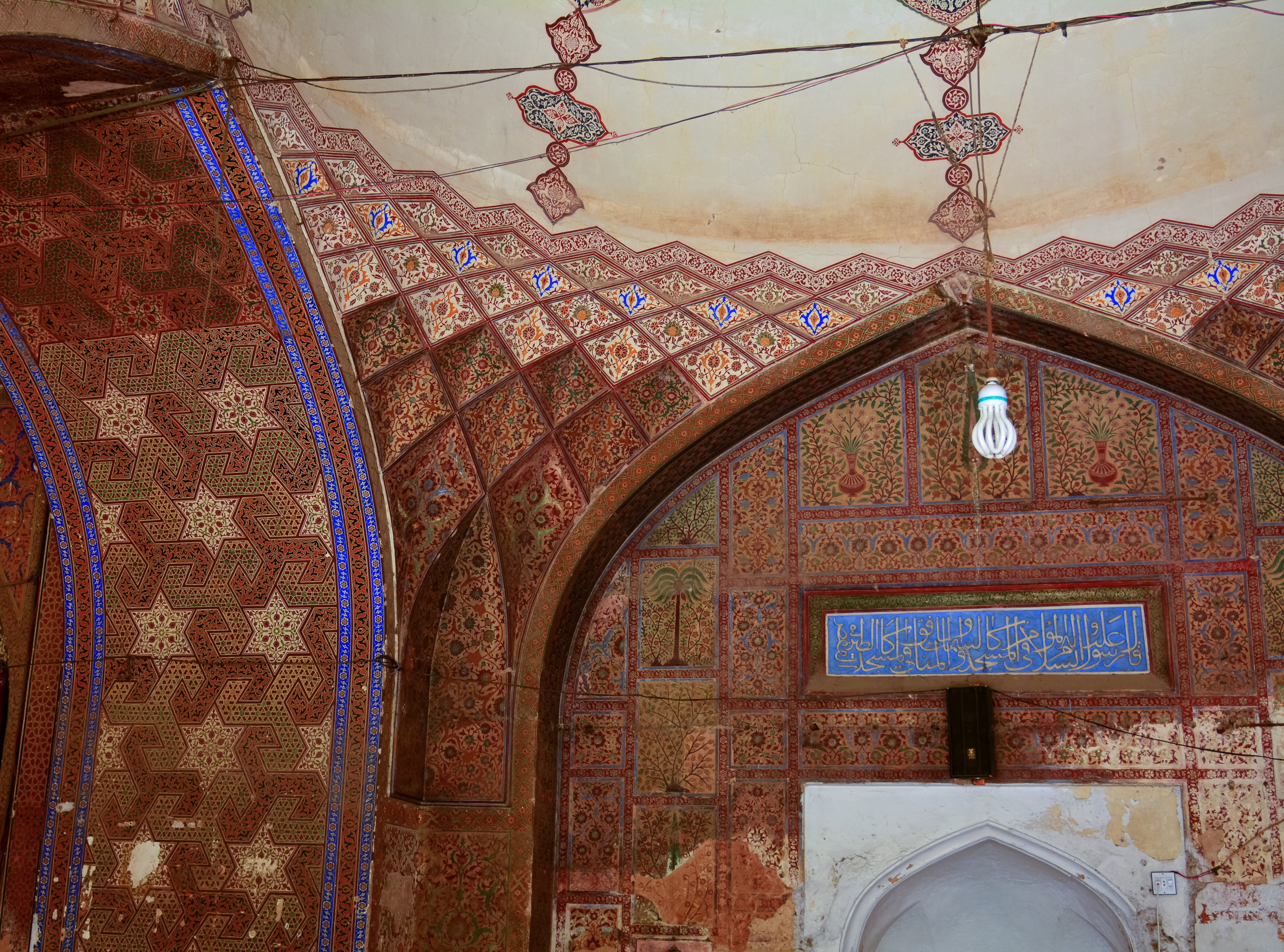 Mosque of Mariyam Zamani Begum (Fresco on the walls inside the prayer chamber of Begum Shahi Mosque) This is a photo of a monument in Pakistan identified as the PB-68